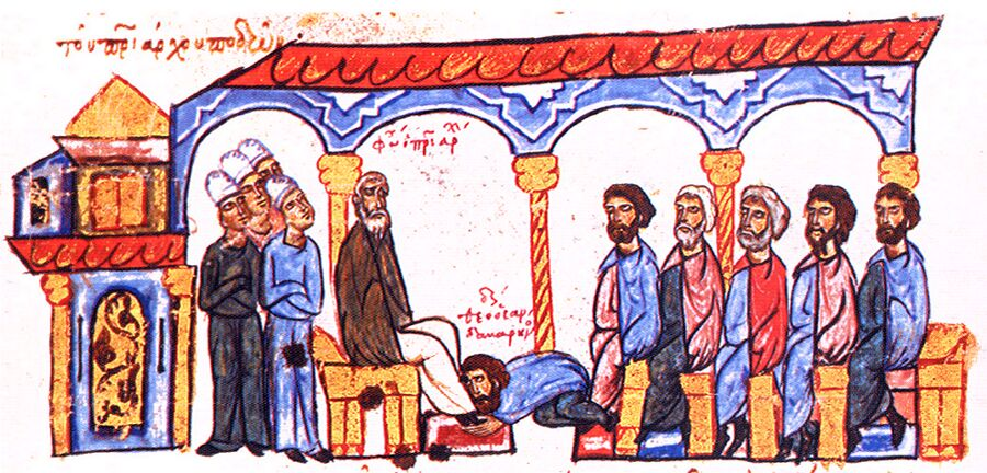 Patriarch Photios I of Constantinople and the monk Sandabarenos